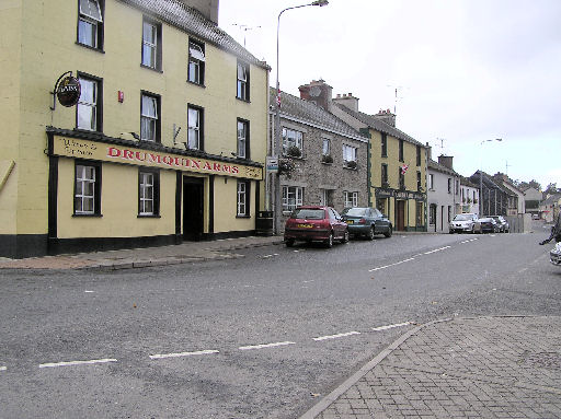 Drumquin, County Tyrone. It is situated on the banks of the Drumquin River (Fairywater) and has a population of approximately 558. The village is largely dependent on farming for its economy. Areas of great natural beauty, such as Sloughan Glen, are to be found in the surrounding countryside.